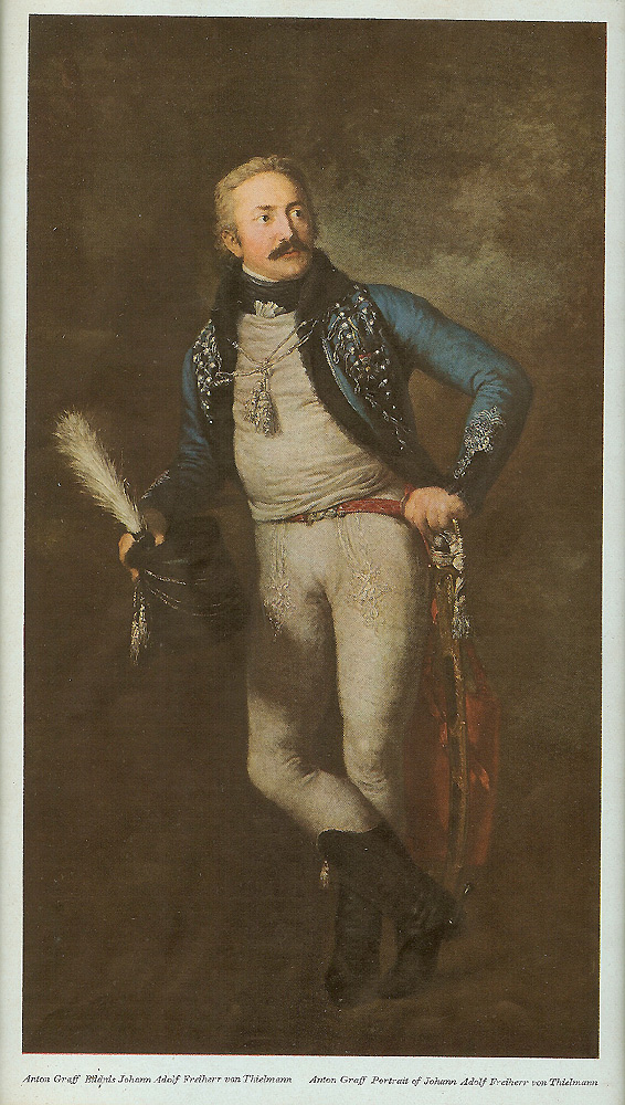 Portrait Johann Adolf Freiherr von Thielmann